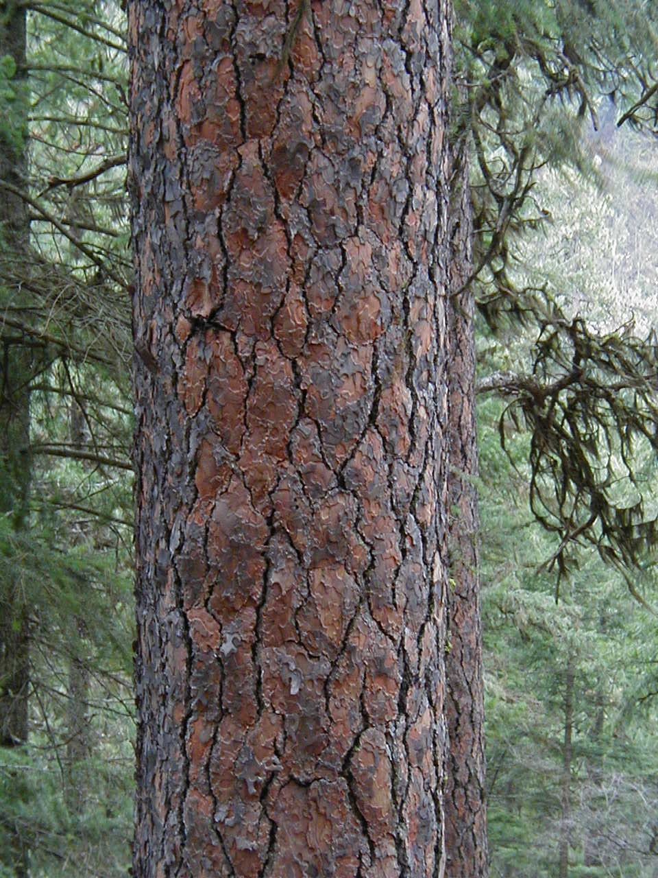 Bark of a Ponderosa Pine, Idaho, United States